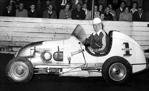 Photo by Frank Le Breton -Sydney Sports Ground Speedway circa 1949.